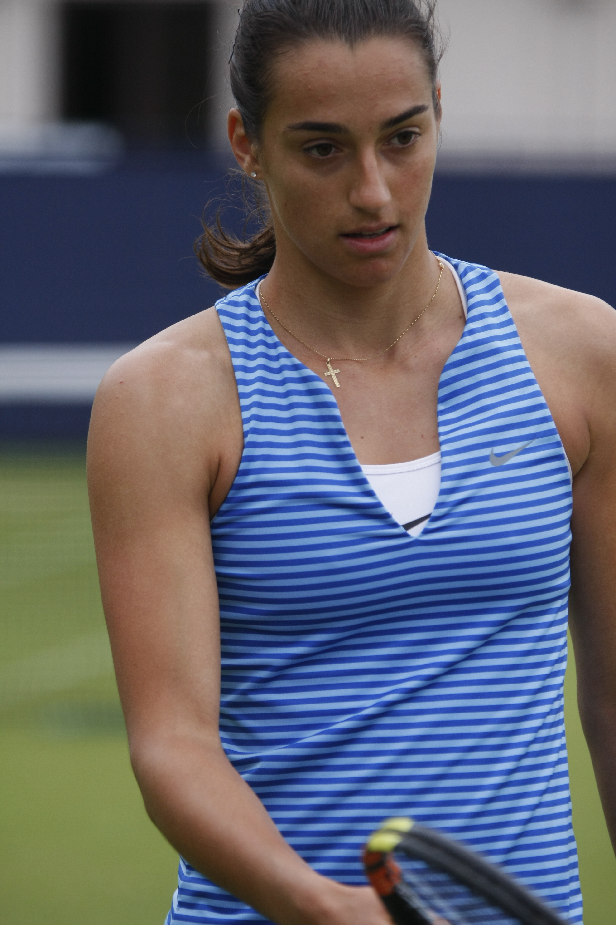 Aegon International Tennis, Devonshire Park, Eastbourne June 2015